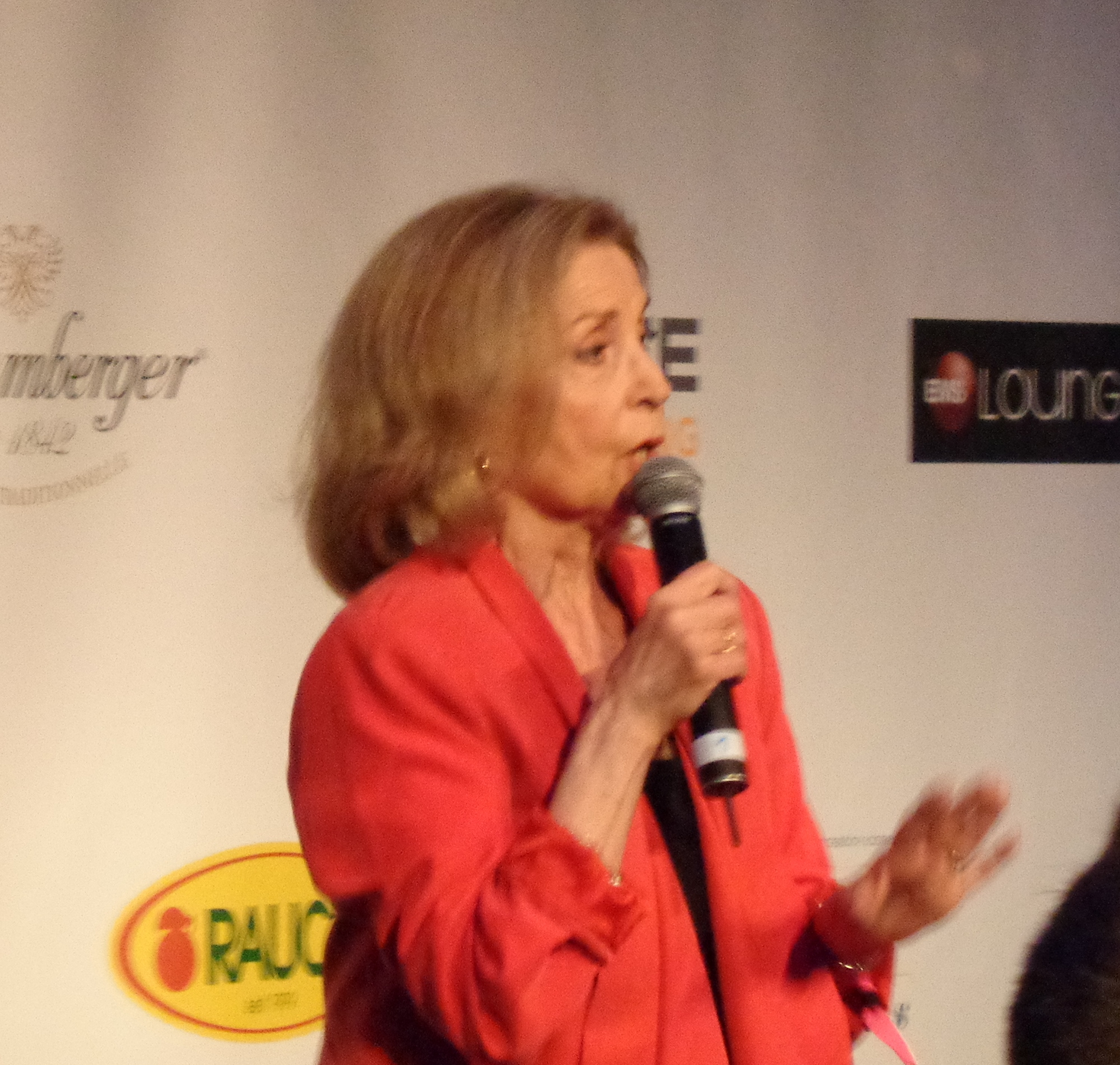 Jacqueline Boyer performing at Euro Fan Cafe in Vienna, 2015.